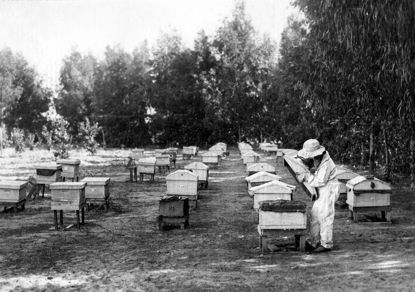 Ein Hahoresh, Econimy of Israel